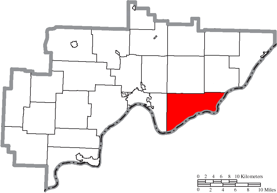 Map of the municipal and township boundaries of Washington County, Ohio, United States, as of the 2000 census, with the location of Newport Township highlighted. Township borders are shown only in unincorporated areas in order to differentiate incorporated and unincorporated areas more clearly.